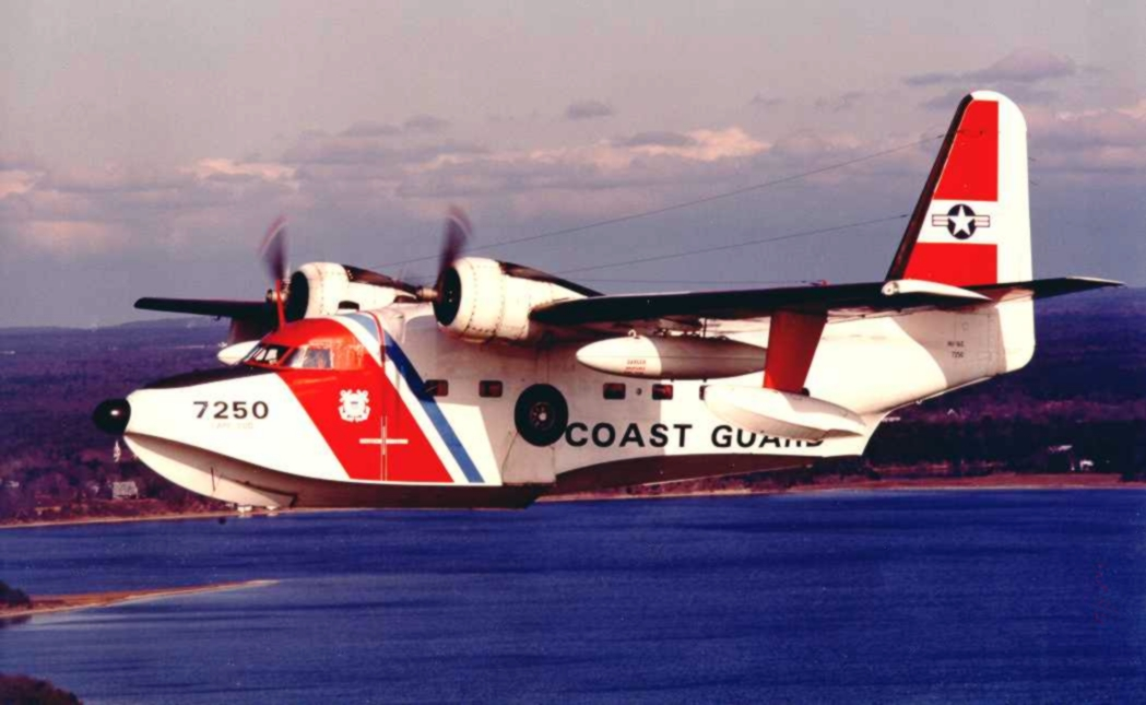 A U.S. Coast Guard Grumman HU-16E Albatross (serial 7250, ex USAF 51-7250) from USCG Air Station Cape Cod, Massachusetts (USA) in flight.